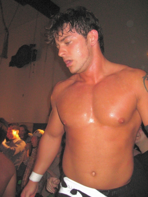 Davey Richards after his victory over Excalibur.